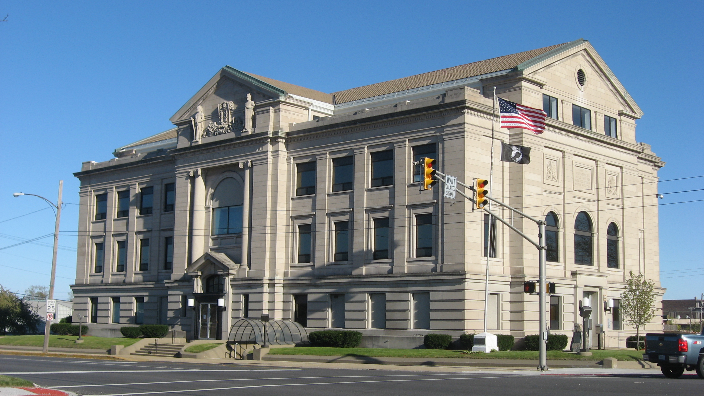 Front and western side of the Michigan City Courthouse, located on the southeastern corner of the junction of Michigan Boulevard (U.S. Route 12) and Washington Street in downtown Michigan City, Indiana, United States. It was built in 1909.